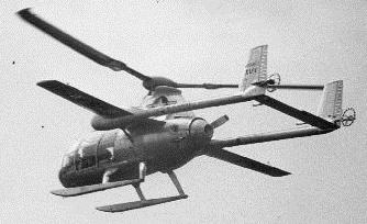 McDonnell XV-1 convertiplane during a test flight in the mid 1950s.